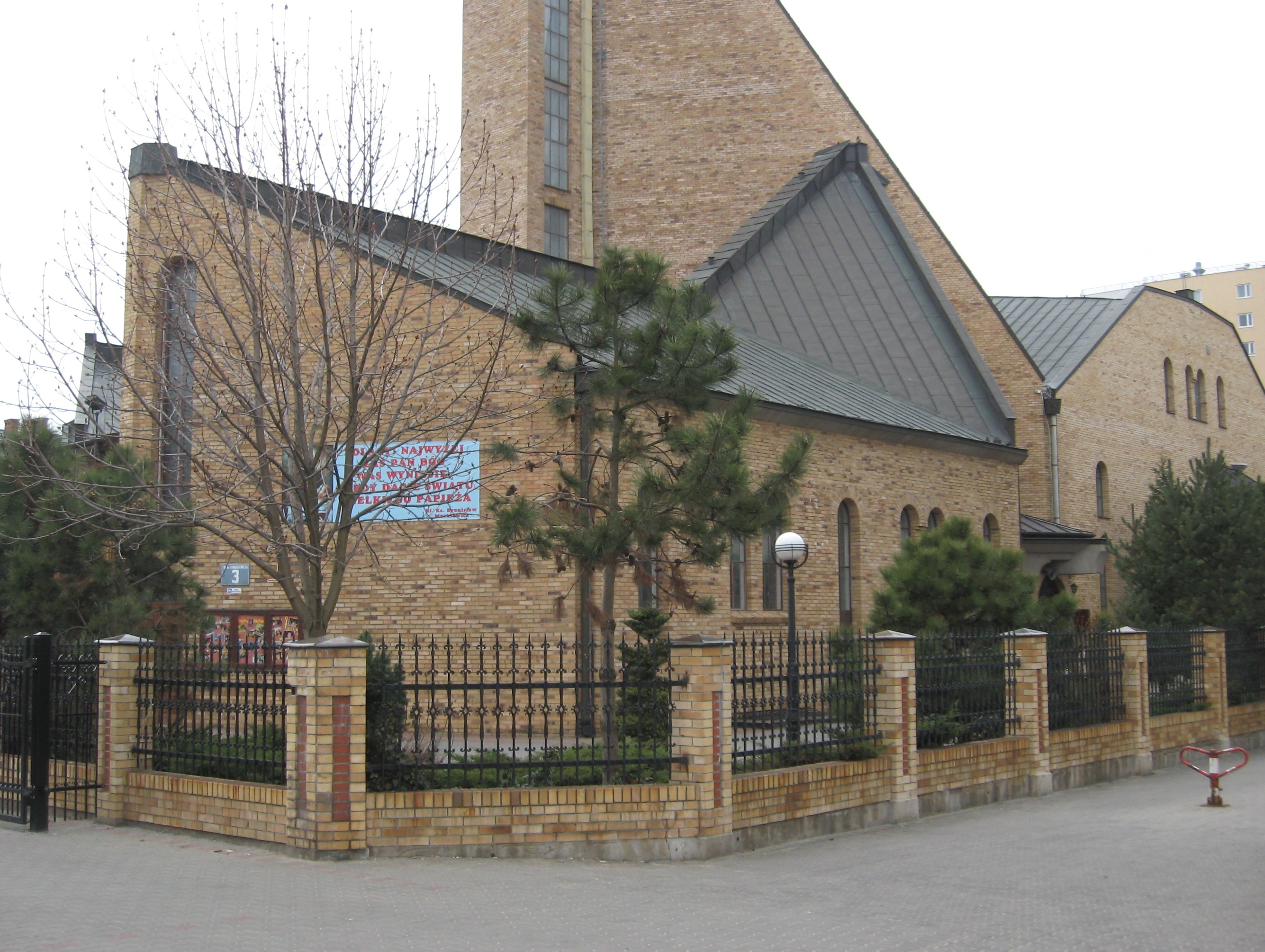 Church Matki Bożej Królowej Aniołów in Warsaw district Bemowo